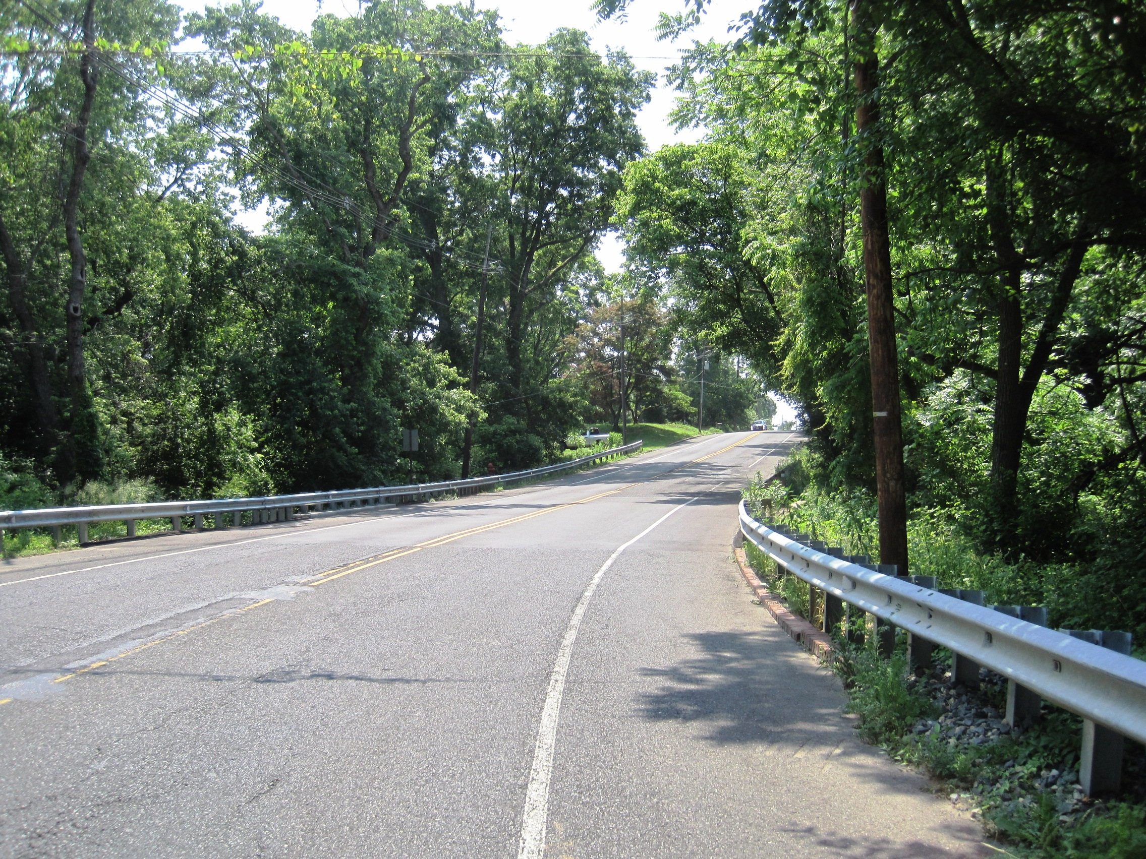 Photo showing Dunns Mills, New Jersey, an unincorporated community within Bordentown Township. Photo was taken along southbound County Route 545 at its crossing of Blacks Creek tributary.